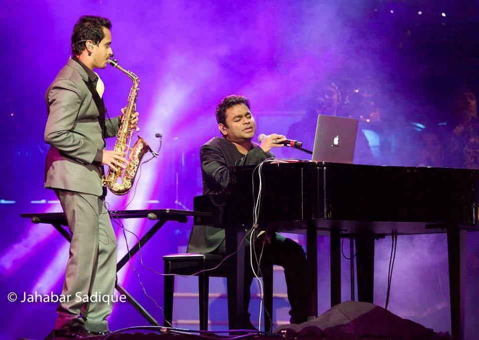 with rehman